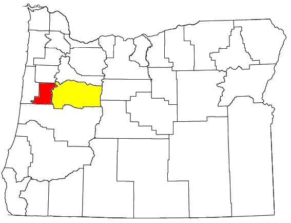 Locator map of the Albany-Corvallis-Lebanon Combined Statistical Area in the western part of the U.S. state of Oregon. The two components of the CSA are colored separately: Corvallis Metropolitan Statistical Area: red Albany-Lebanon Micropolitan Statistical Area: yellow